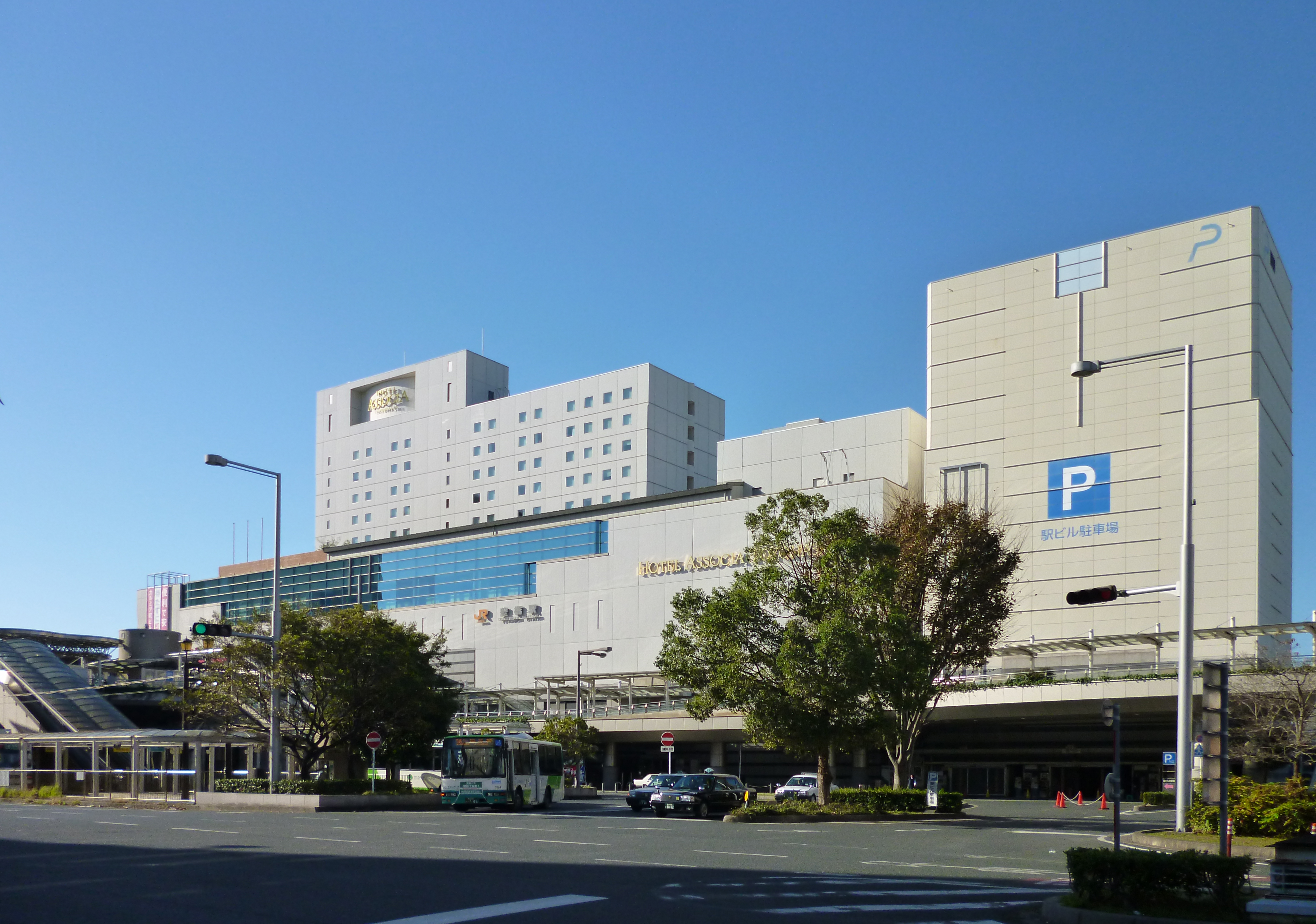 The east side of Toyohashi Station in Toyohashi, Aichi Prefecture, Japan.